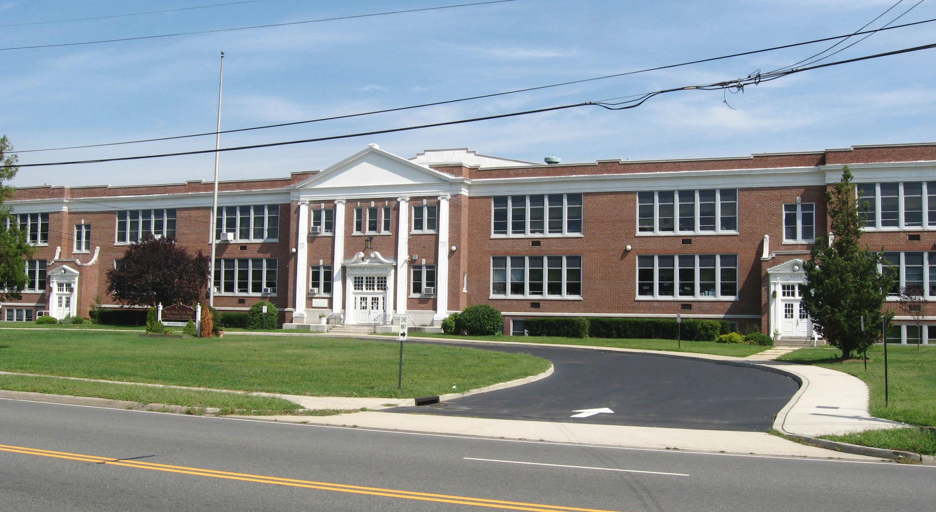 Looking northeast at New Hyde Park Road Elementary School in New Hyde Park, New York on a partly cloudy midday